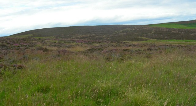 Saddle Hill, north of Raedykes Roman Camp Top of Saddle Hill is a heather covered moorland. At the extreme upper right is part of the southern flank of Meikle Carrewe Hill. Photographer is standing in a marsh one metre deep in water; the marsh is part of the drainage of Burn of Monboys and has juncus as a dominant species.